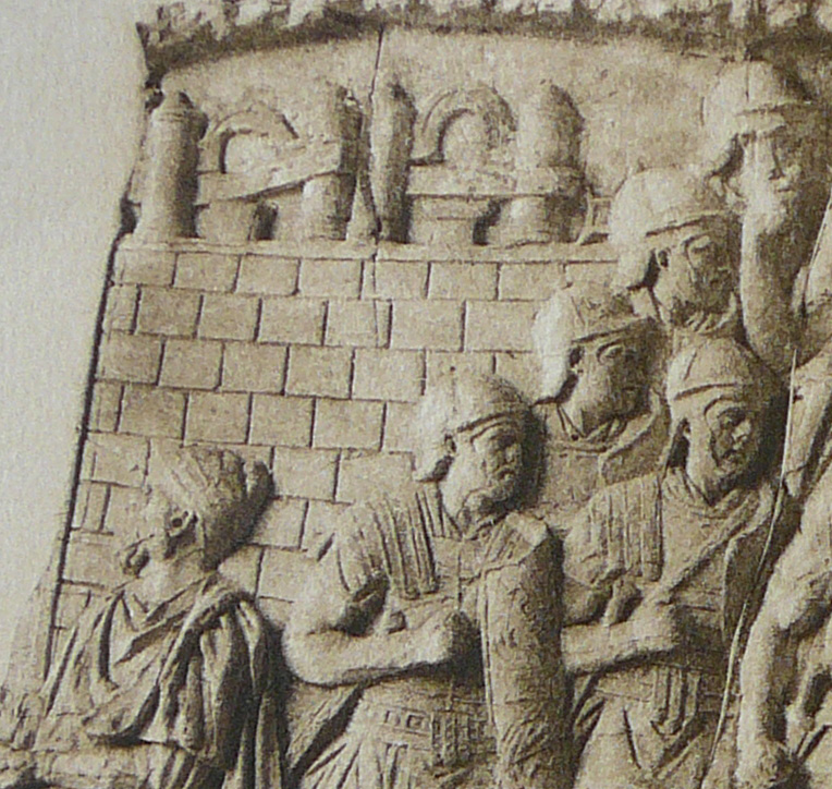 Roman ballistae (arrow and stone firing machines) mounted on fortification walls